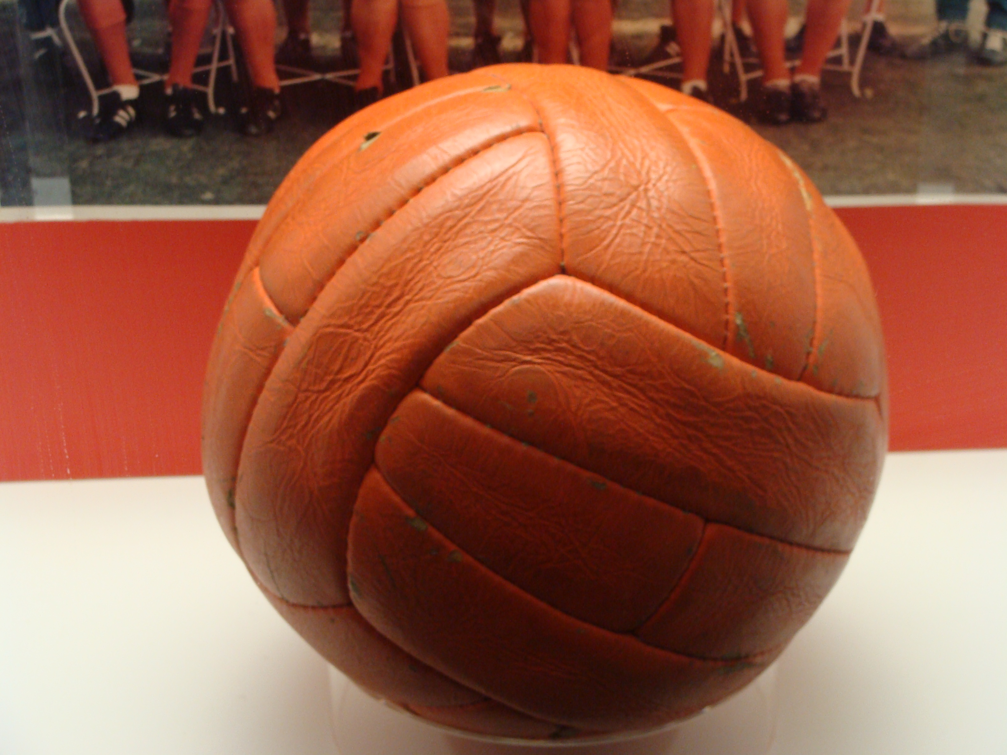 Close-up of the ball from the 1966 World Cup Final